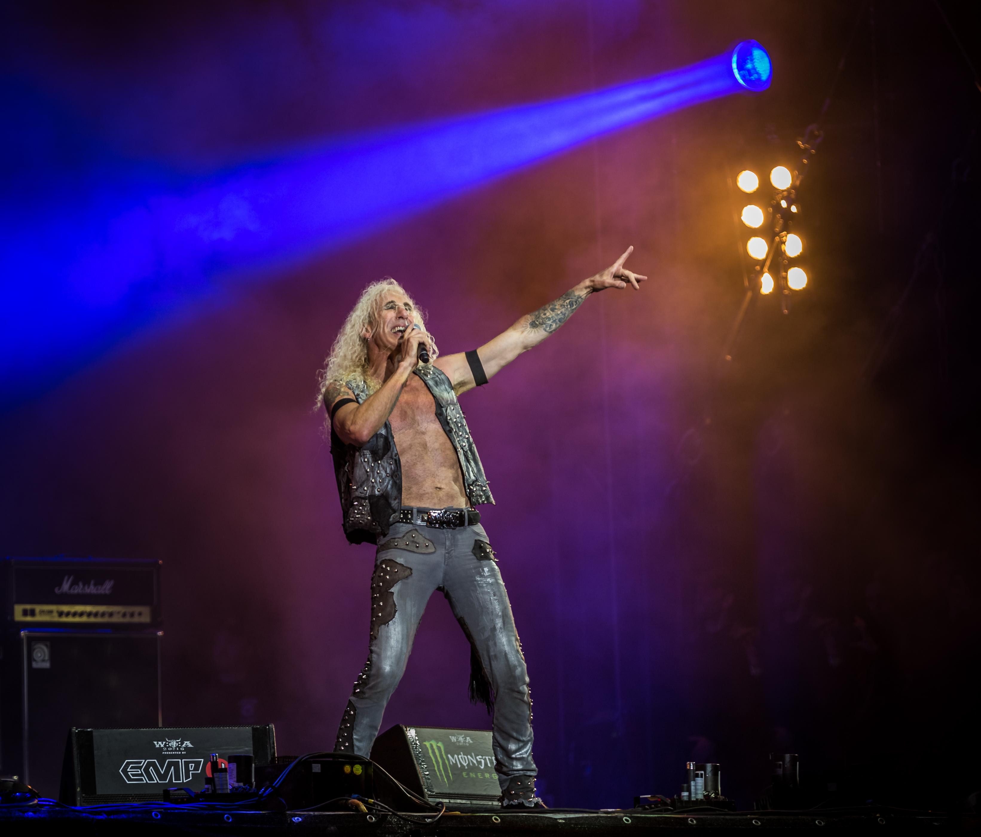 Twisted Sister - Wacken Open Air 2016